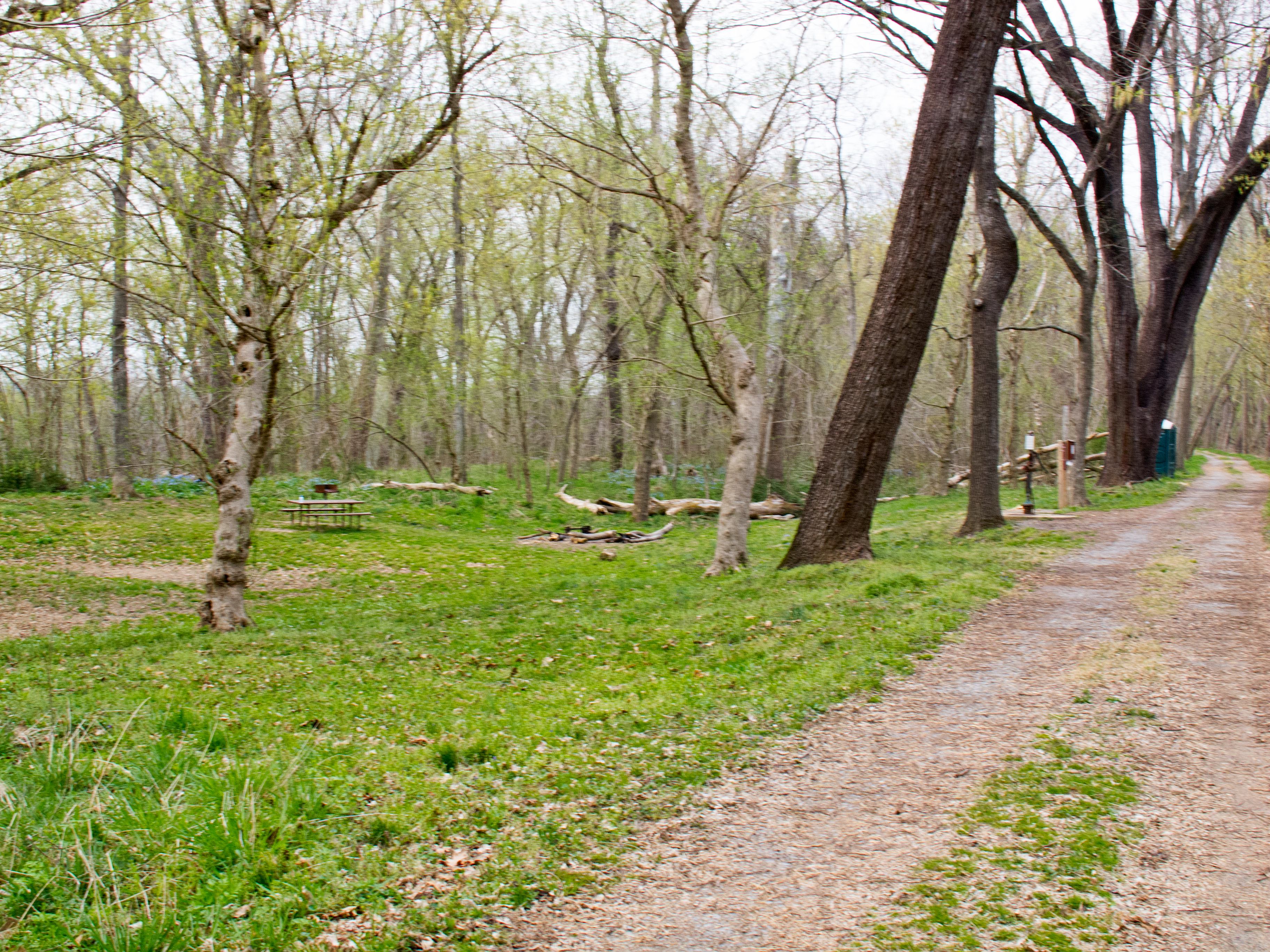 Turtle Run Hiker Biker campsite on the Chesapeake and Ohio Canal, at 34.4 miles on the 9 mile level of White's Ferry, between Lock 25 (Edwards Ferry) and White's Ferry. Next campsite downstream is Chisel Branch, the next one upstream is Marble Quarry.